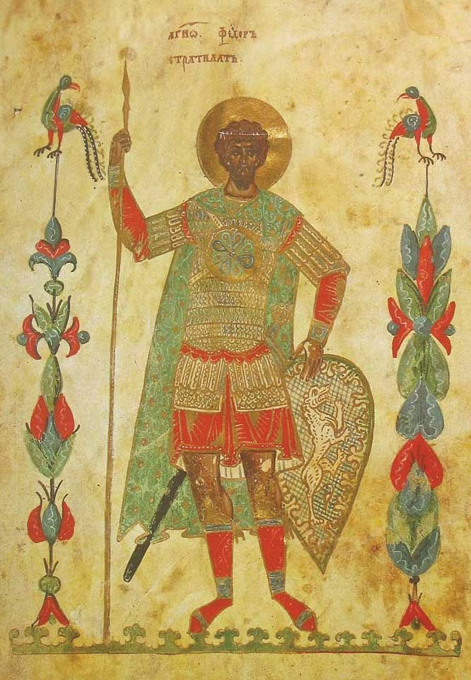 A miniature from the Fyodorovsky Gospel, Yaroslavl (ca. 1327), representing St. Theodore Stratelate, the patron saint of Fyodor the Black, the sainted prince of Yaroslavl